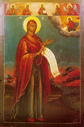 Theotokos of Bogolyubovo